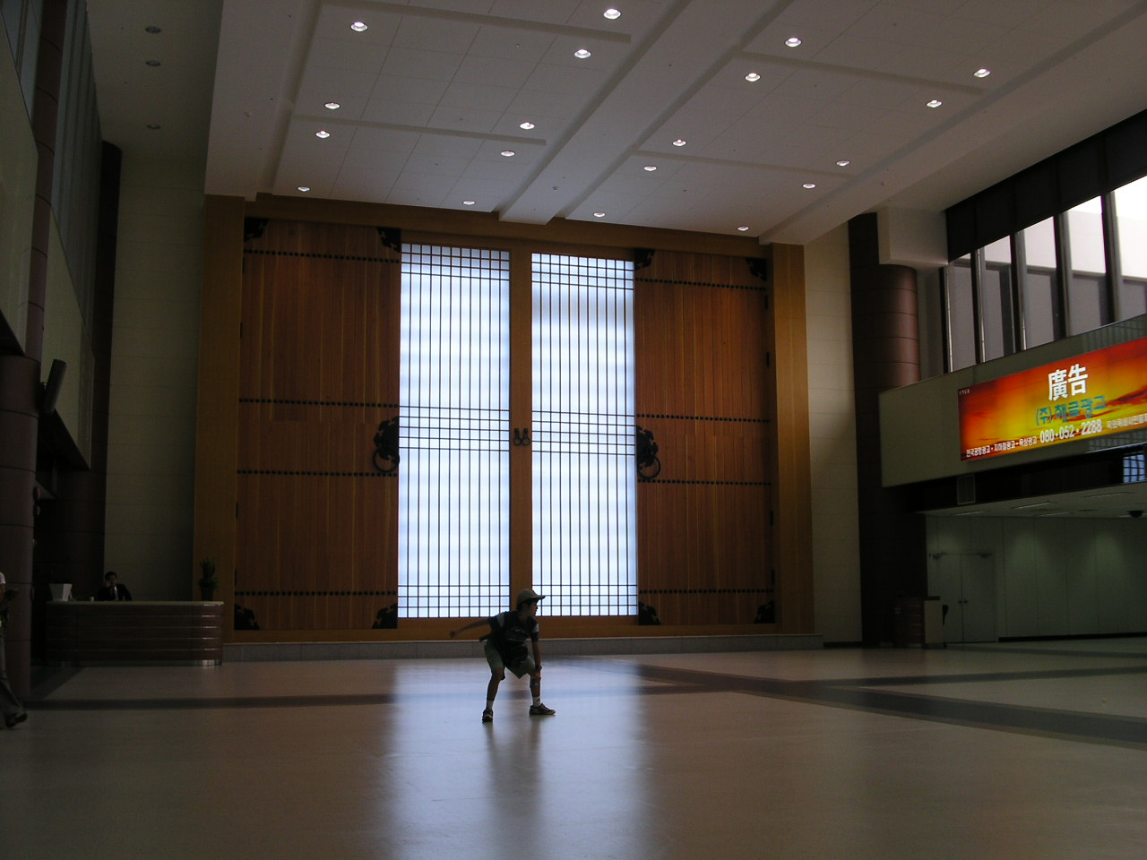 International Terminal of Gimpo Airport, which symbolizes the gateway of Korea.